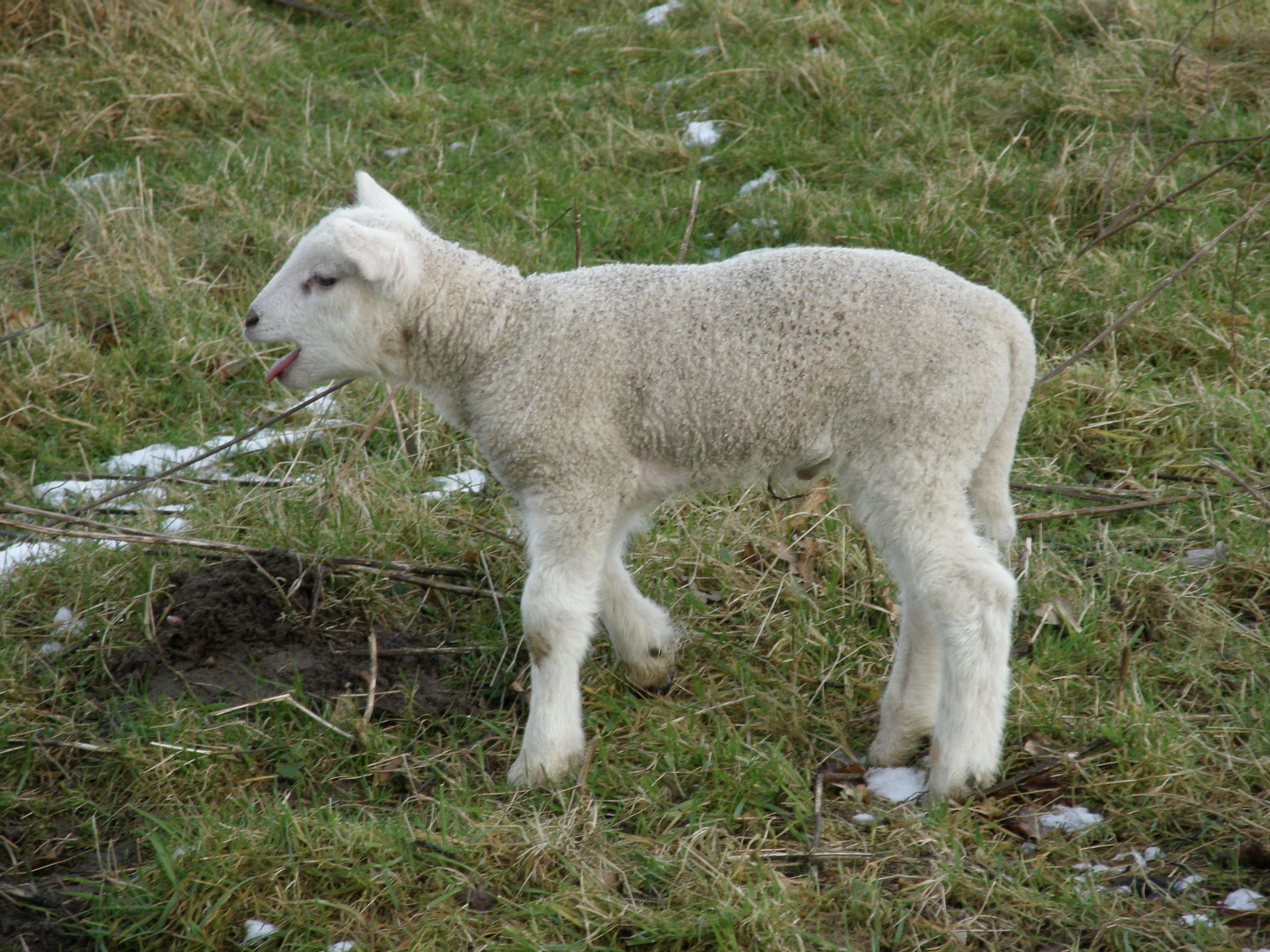 Schaf, sheep, Ovis aries, Germany, Dersau